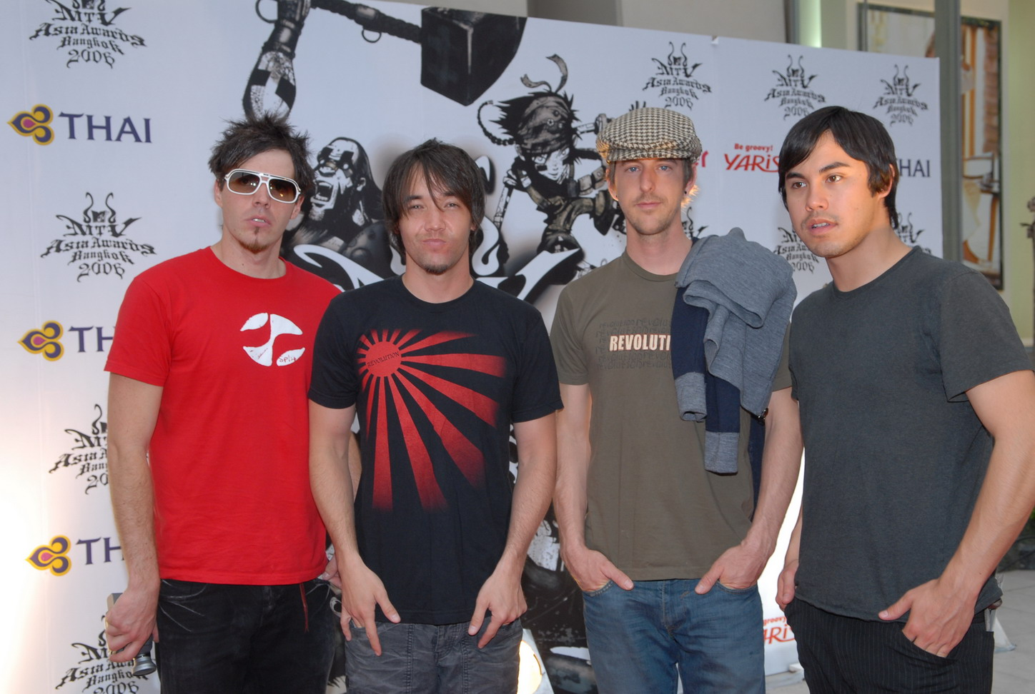 Hoobastank on the red carpet at MTV Asia Awards 2006,Bangkok, Thailand